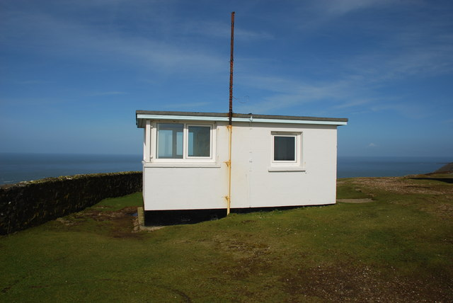 Coastguard lookout on Mynydd Mawr Overlooking the end of the peninsula and Ynys Enlli/Bardsey, the building is now disused.